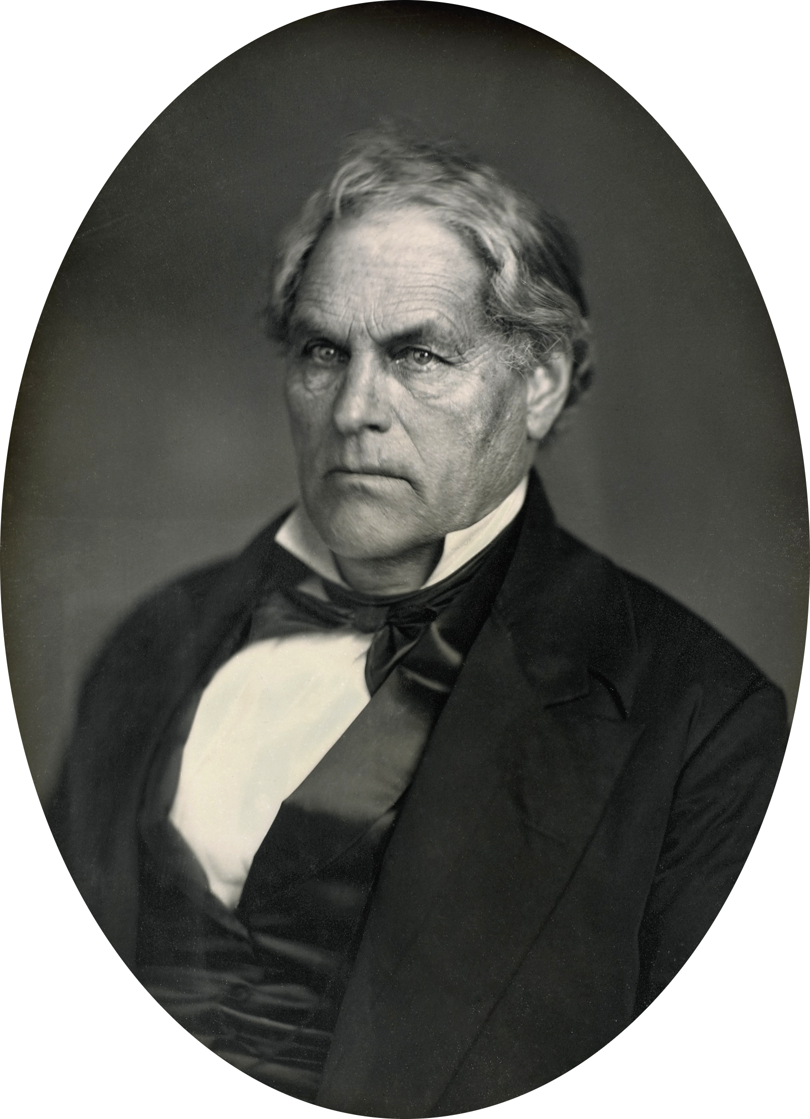 Daguerreotype of James Fenimore Cooper